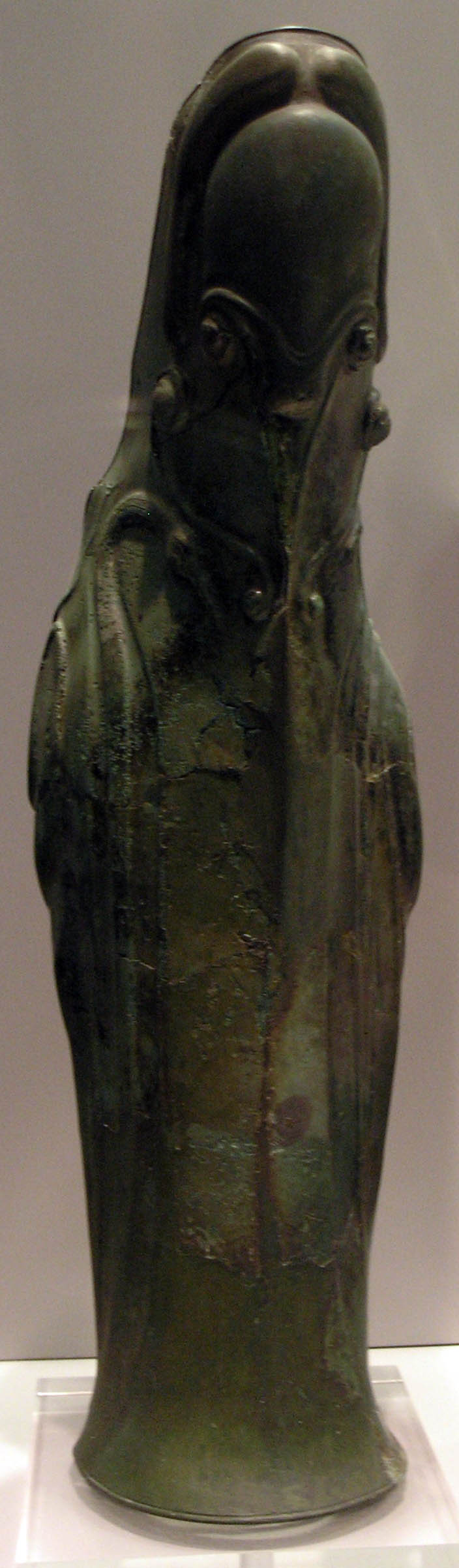 Right greave, end of the 6th century BC, from the temple of Zeus Lycaios in Arcadia.